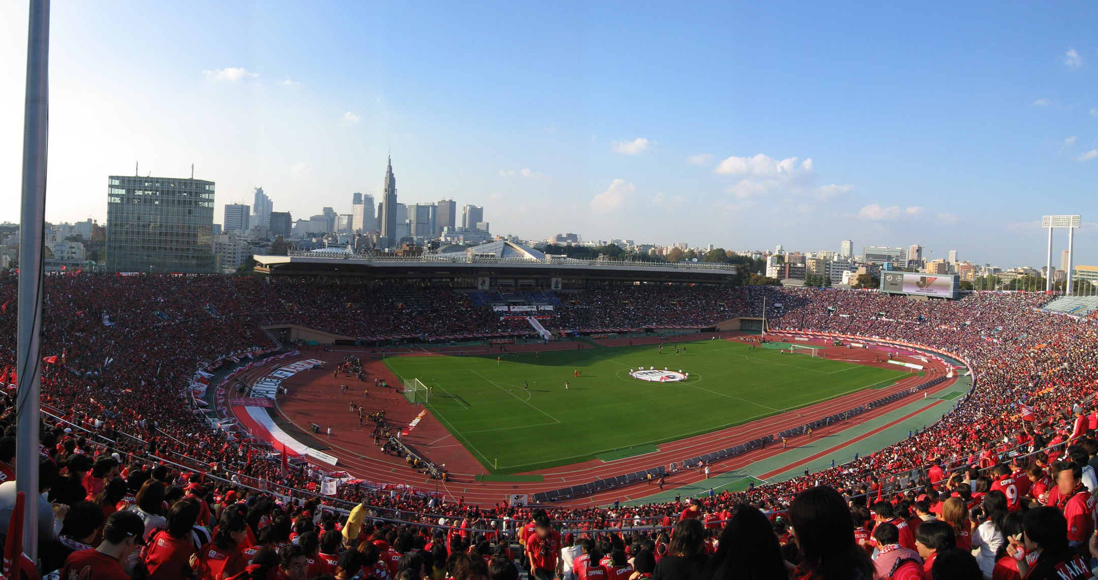 Taken photo and Stiched by LonelyPlanet. 3/Nov/2004, Yamazaki Navisco Cup final game. FC Tokyo vs. Urawa Reds